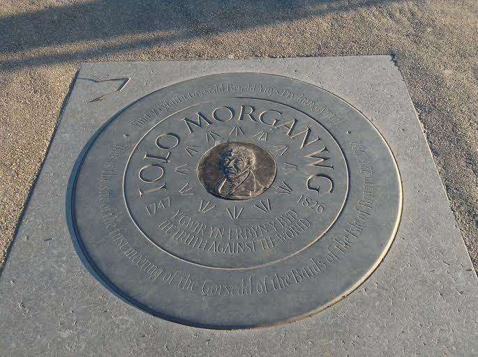 Memorial plaque to Edward Williams (Iolo Morganwg), Primrose Hill, London